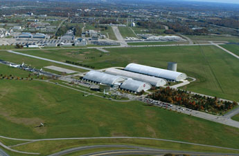 Aerial Photograph of the NMUSAF